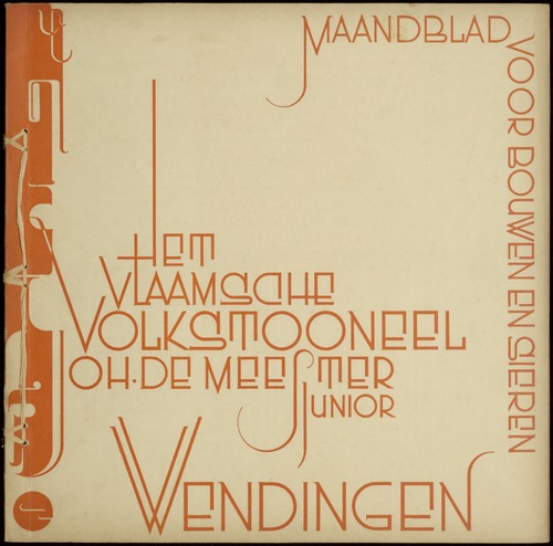 Front cover of the Dutch art magazine Wendingen, March 1927. Design by Anton Kurvers